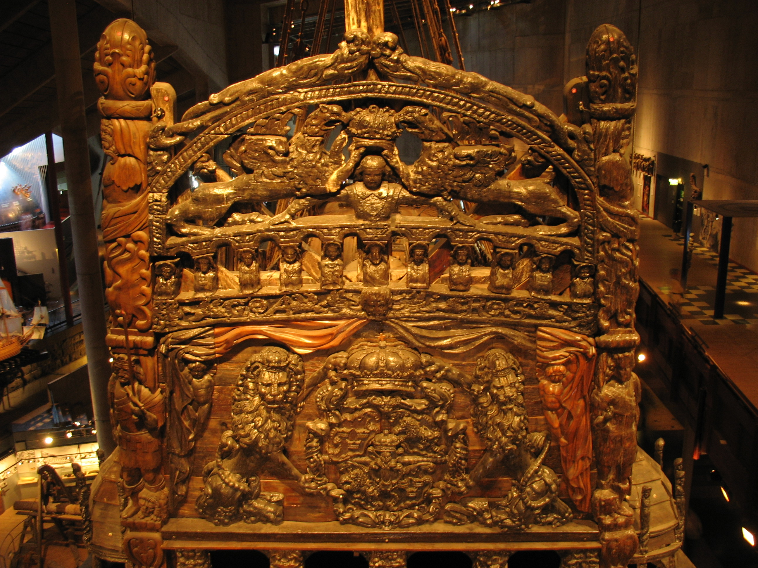 The top sections of the transom of the 17th century warship Vasa on display at the Vasa Museum in Stockholm.